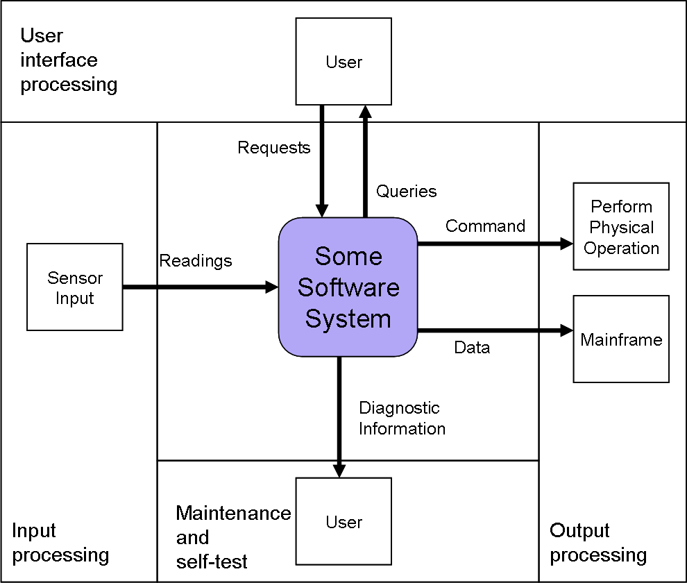 A diagram of a System Context Diagram used for the high level analysis using Hatley-Pirbhai Modeling.